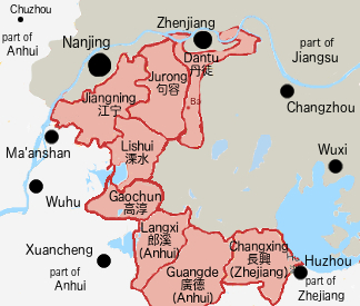 Showing counties or districts taken by the communist forces in Southern Jiangsu and parts of Anhui and Zhejiang in August 1945.